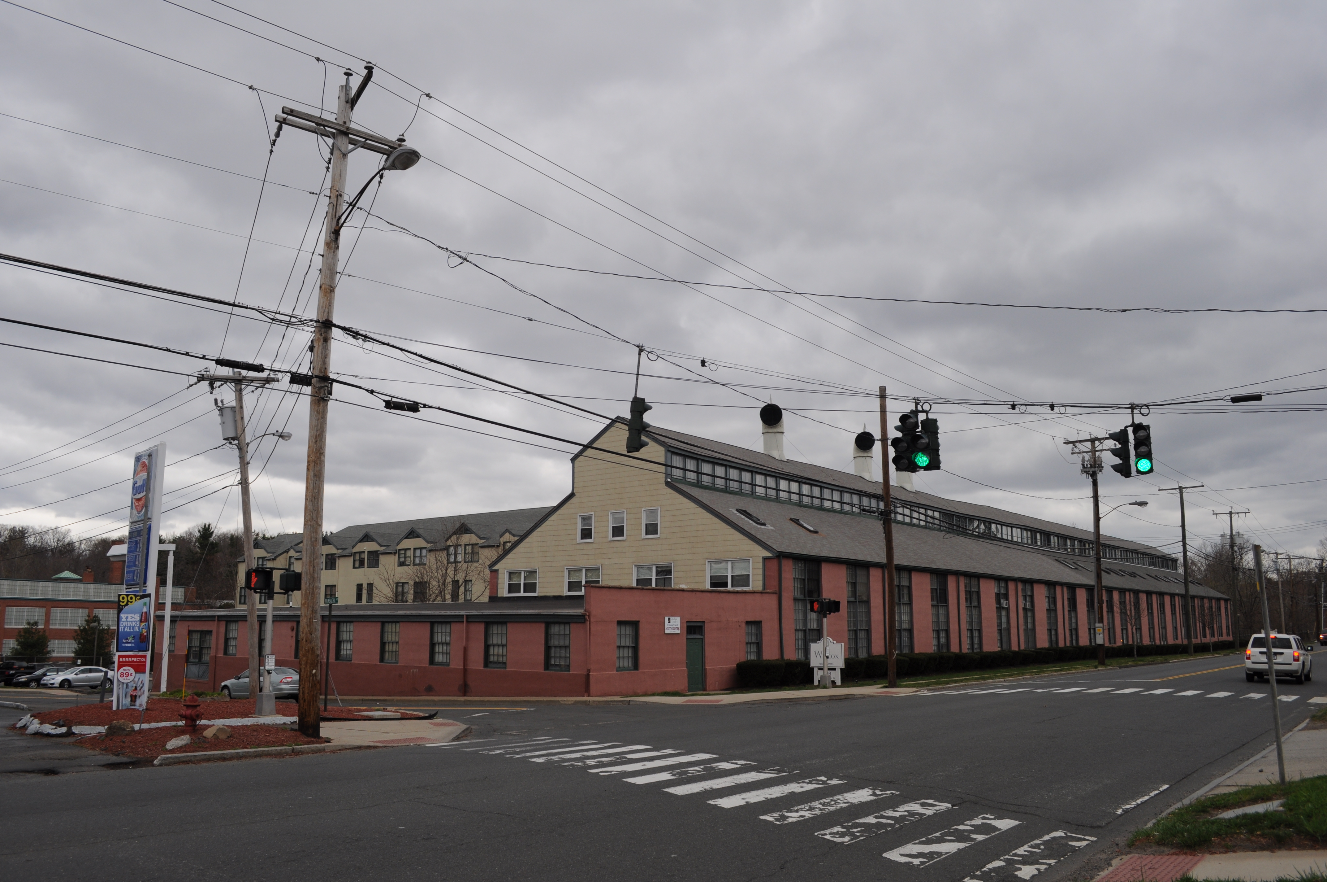 Mill C (galvanizing and forge shop built 1907, now low-income housing), Wilcox, Crittenden Mill, South Main, Middletown, Connecticut, USA.